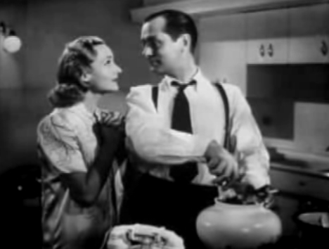 Cropped screenshot of Carole Lombard and Robert Montgomery from the trailer for the film Mr. & Mrs. Smith